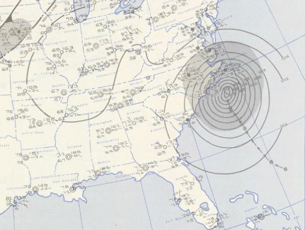 Surface weather analysis of Hurricane Ione on 19 September 1955.